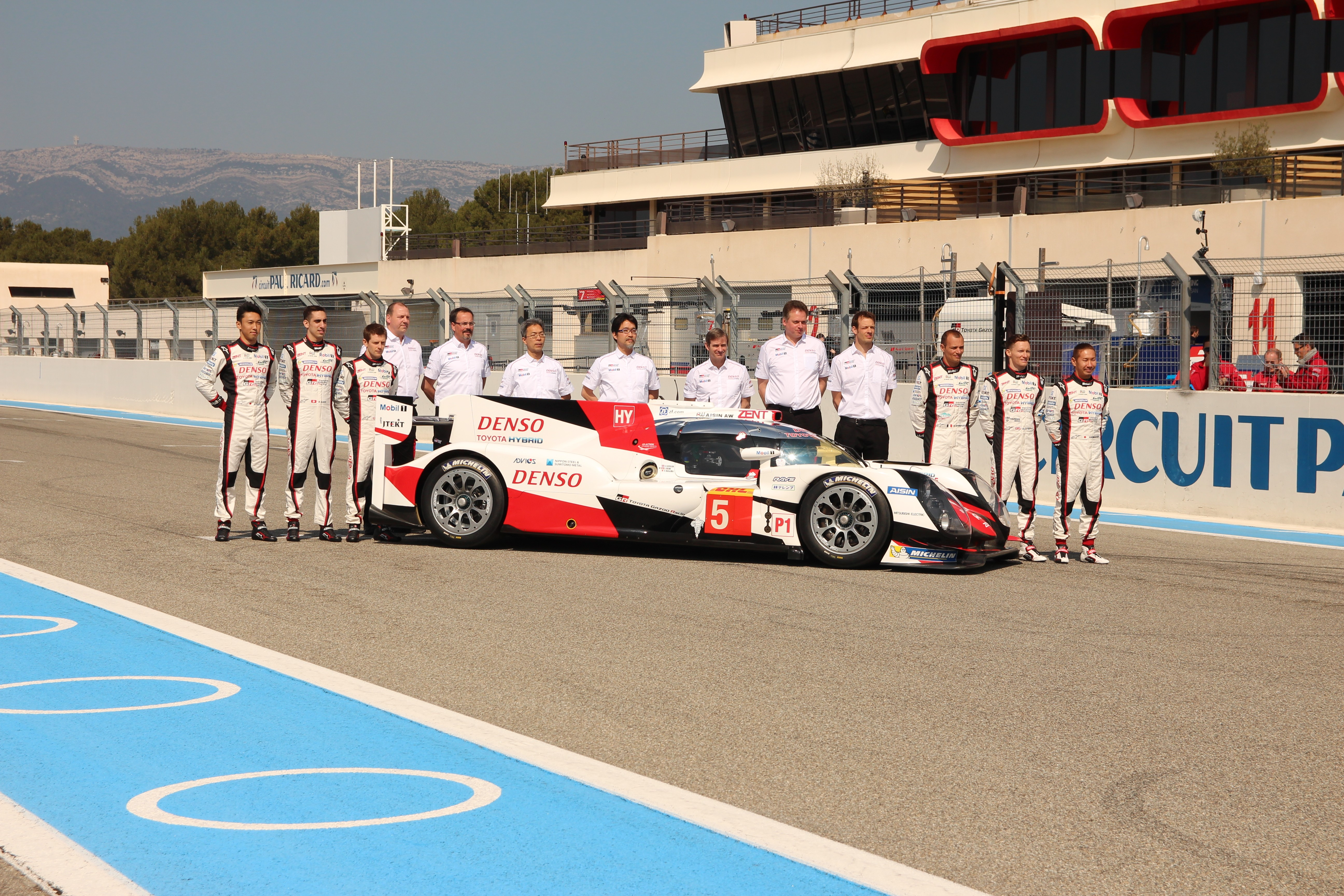 Toyota TS050 Hybrid unveiled at Circuit Paul Ricard, Le Castellet, France on 24 March 2016. From left to right: Kazuki Nakajima (#5 driver), Sébastien Buemi (#5 driver), Anthony Davidson (#5 driver), John Steeghs (team manager), Rob Leupen (team director; vice-president of TMG), Toshio Sato (president of TMG), Hisataka Murata (general manager of motorsport unit development division of Toyota Motor Corporation), Pascal Vasselon (technical director; vice-president of TMG), John Litjens (project leader), Alexander Wurz (advisor, ex-TMG driver), Stéphane Sarrazin (#6 driver), Mike Conway (#6 driver), and Kamui Kobayashi (#6 driver).